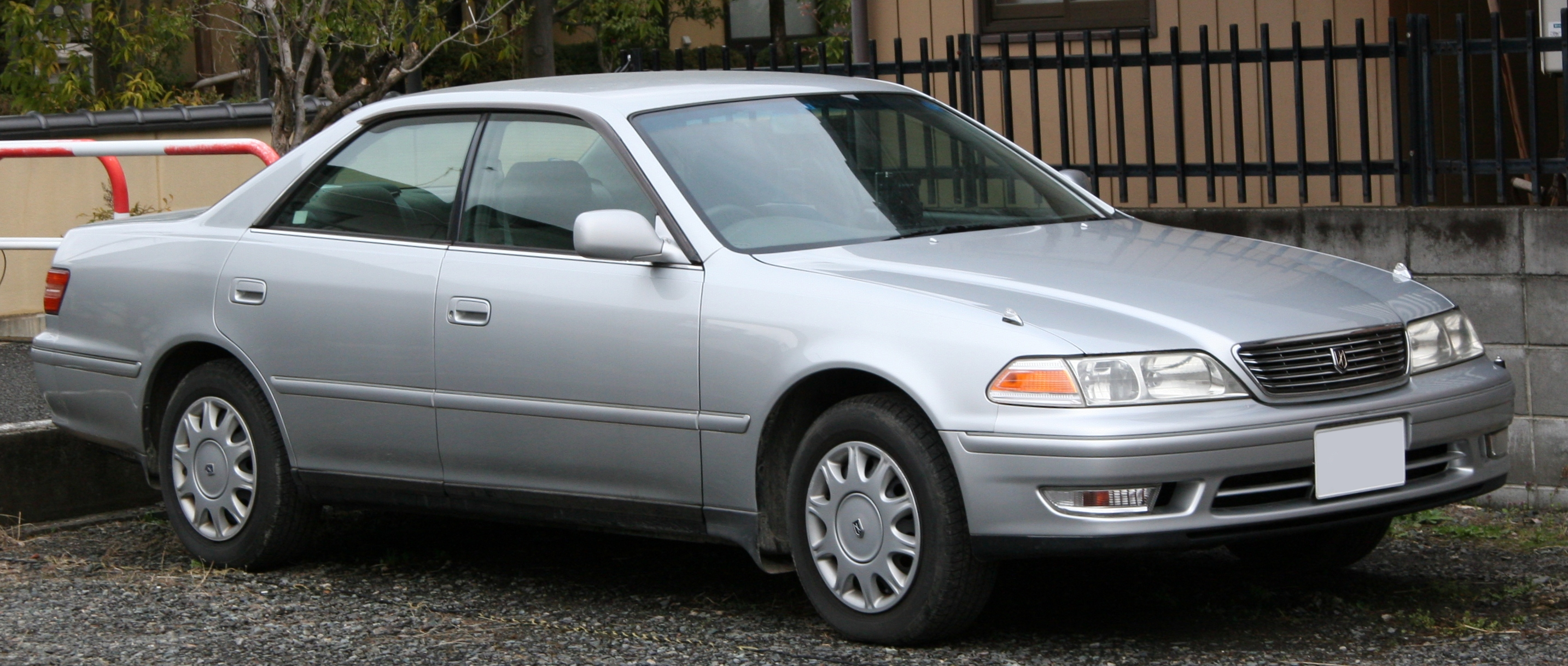 Toyota Mark II